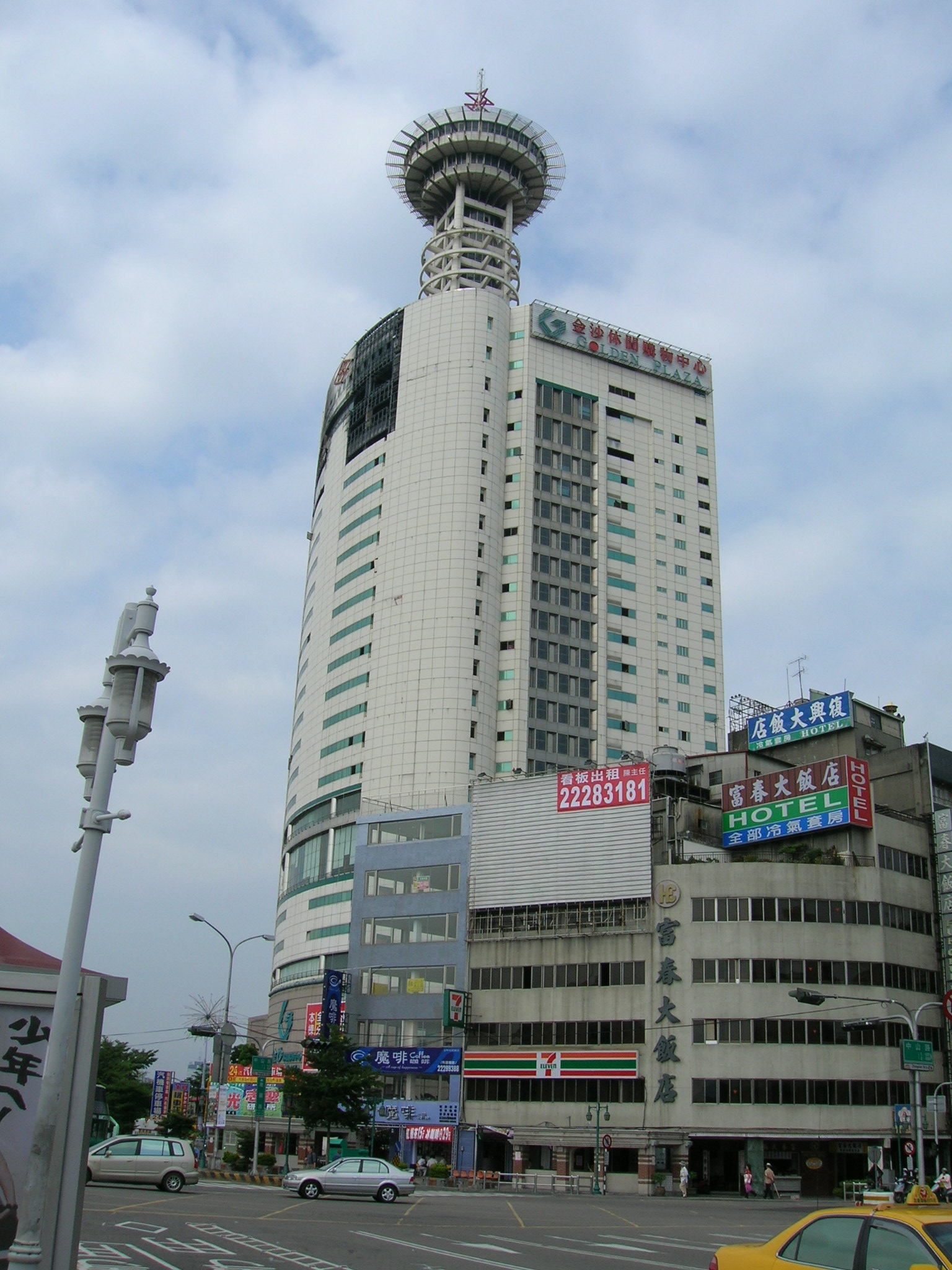 Golden Plaza is a shopping mall in Taiwan,located at the intersection of Zhongshan Road、Jhungjheng Road and Jianguo Road in Taichung City.This photo taken the front of Taichung Station.